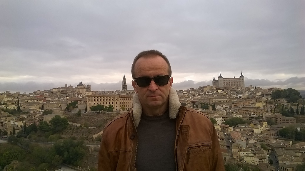 Dr Dragan Djokanovic in Toledo, Spain